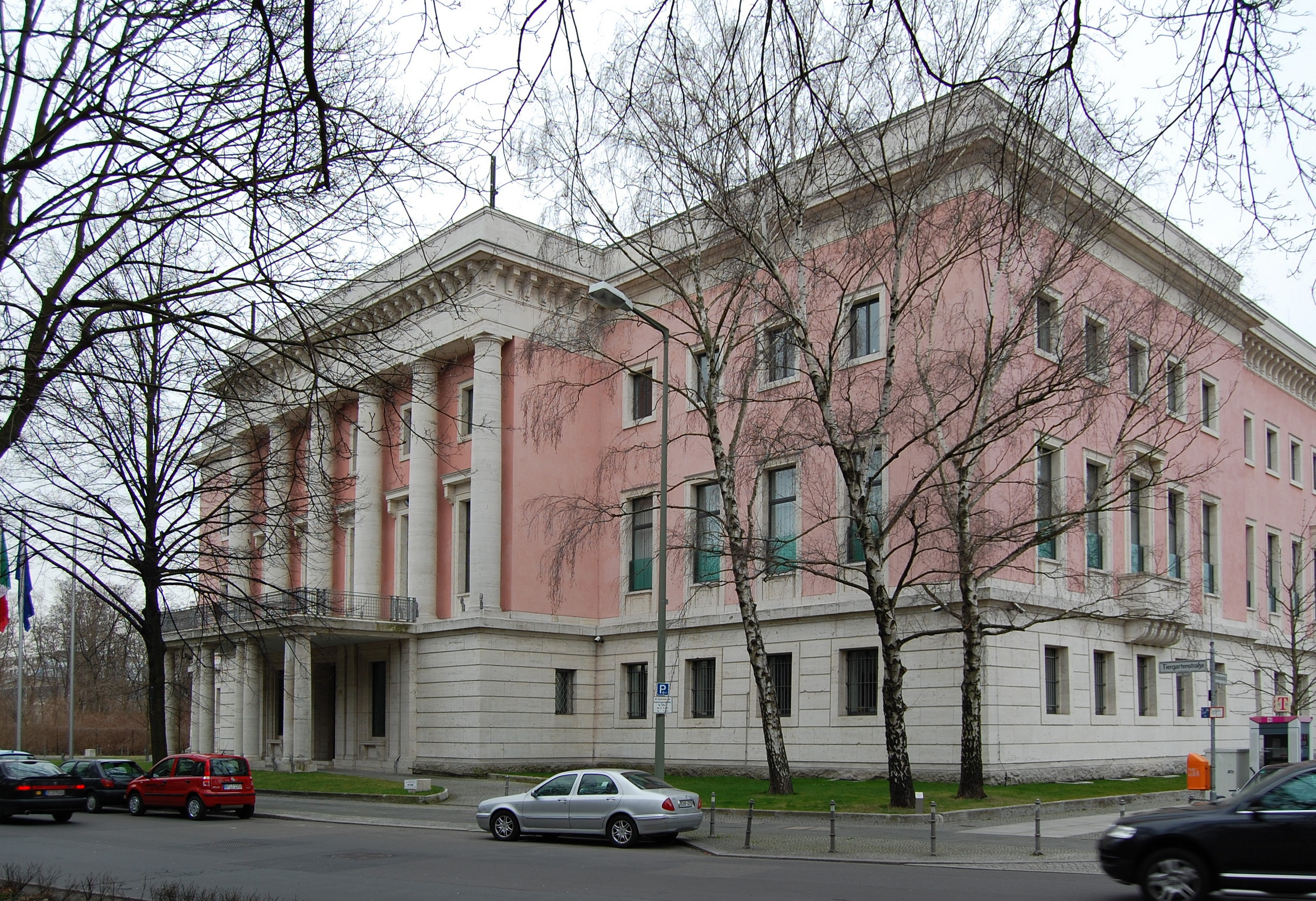 Italian Embassy in Berlin